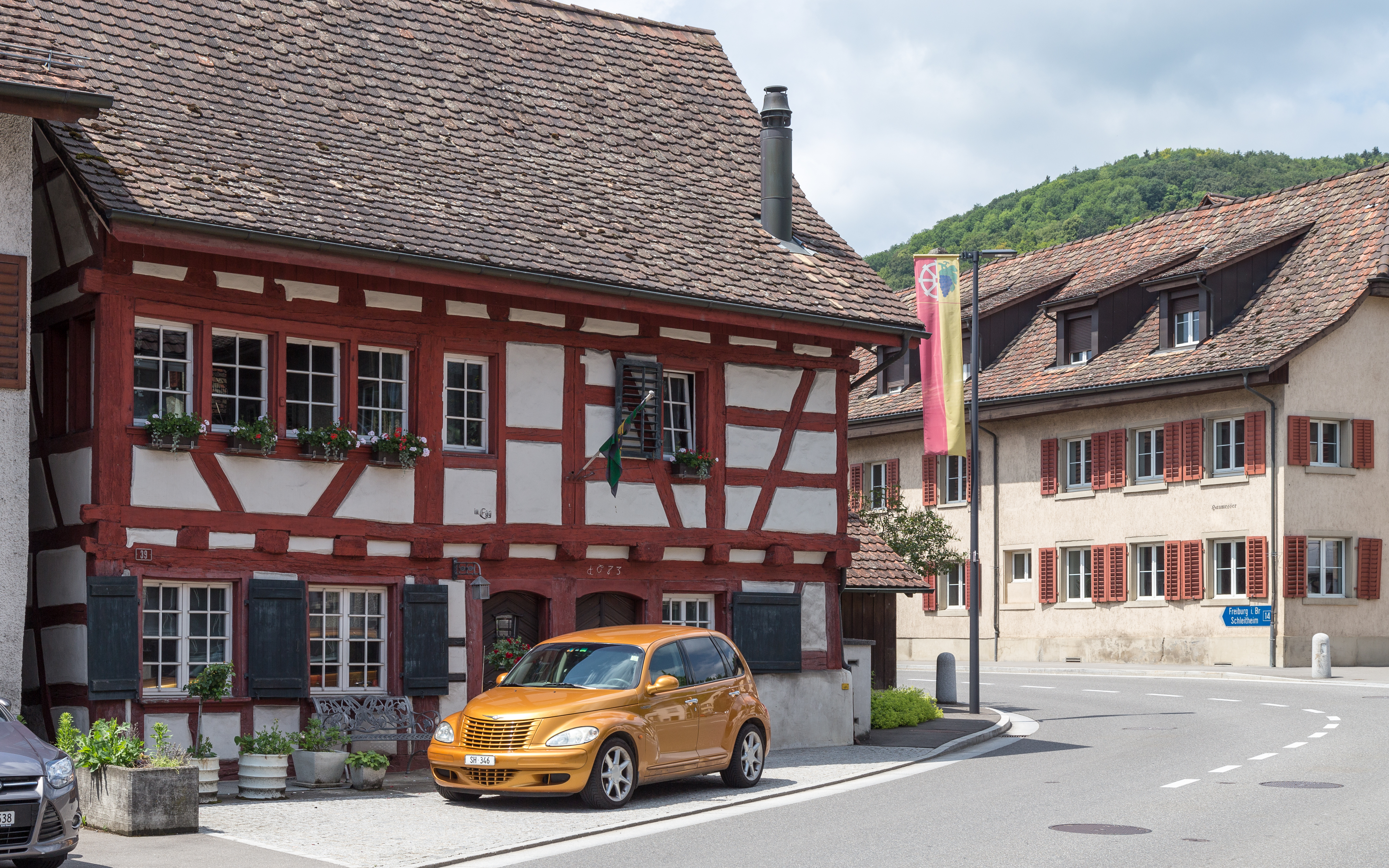 Historic houses "Im Egg" and "Haumesser" in Beringen, canton of Schaffhausen